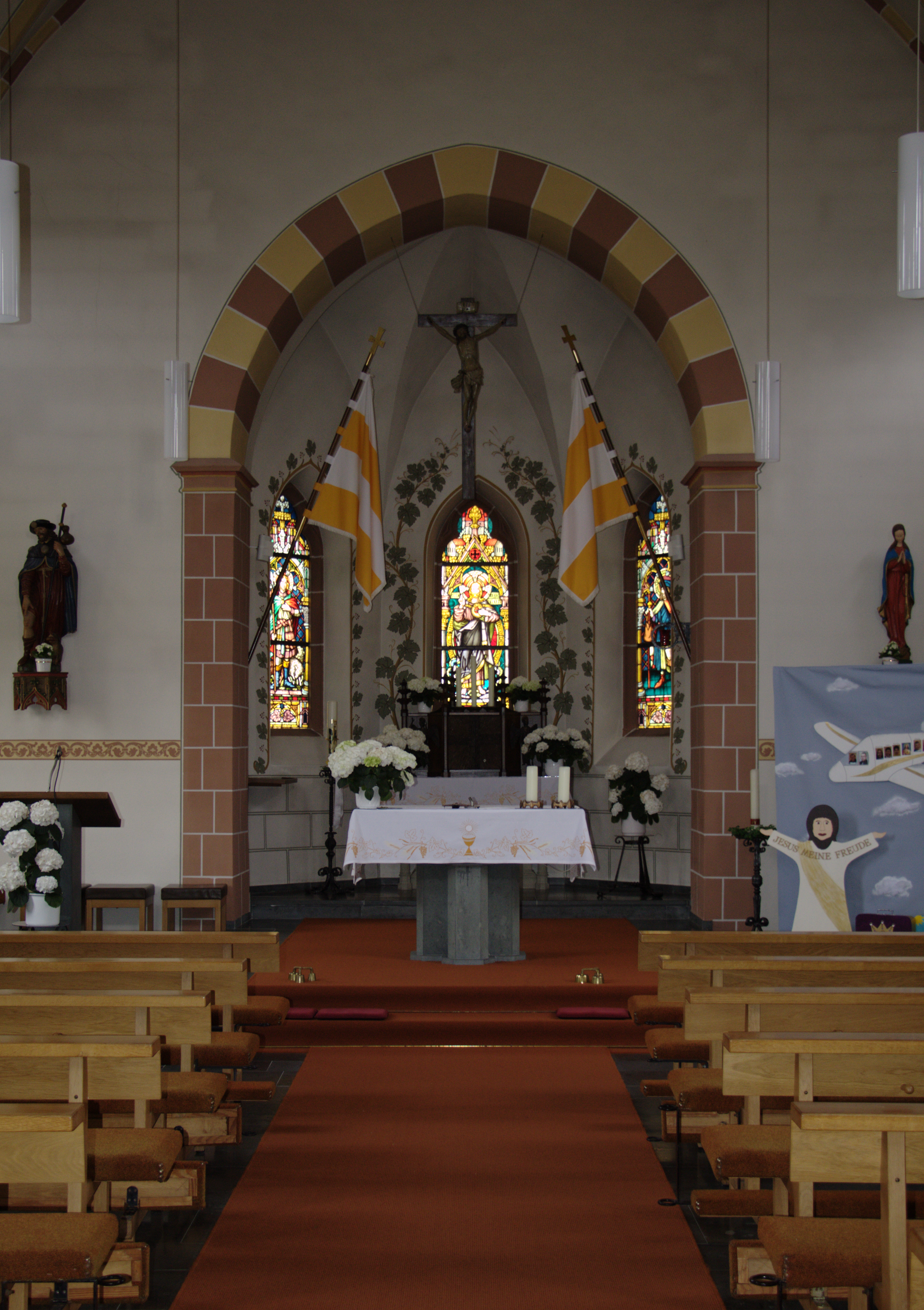 Catholic Church in Jossa, Hosenfeld, Hessen, Germany